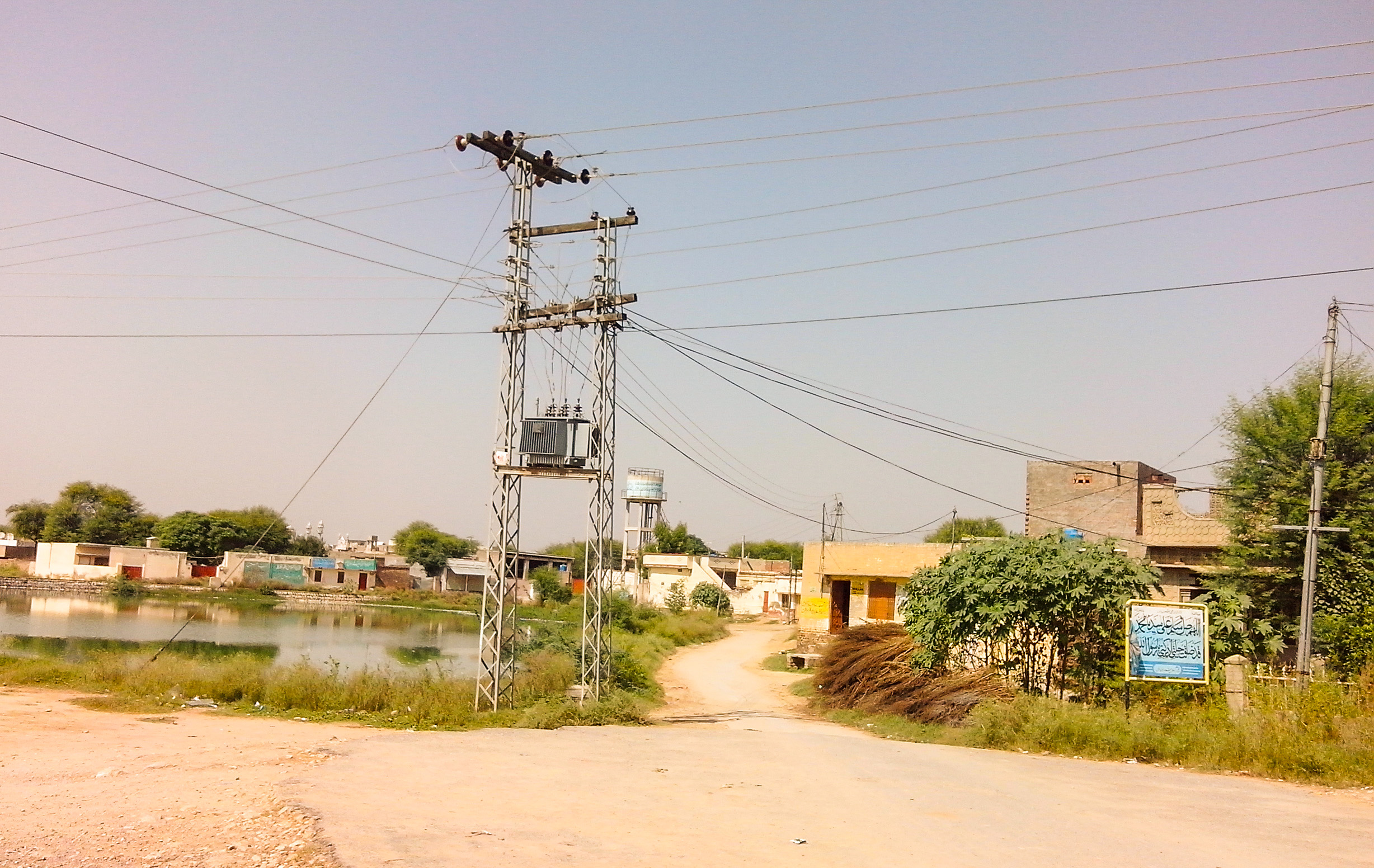 The Village of Dhan Kalan.